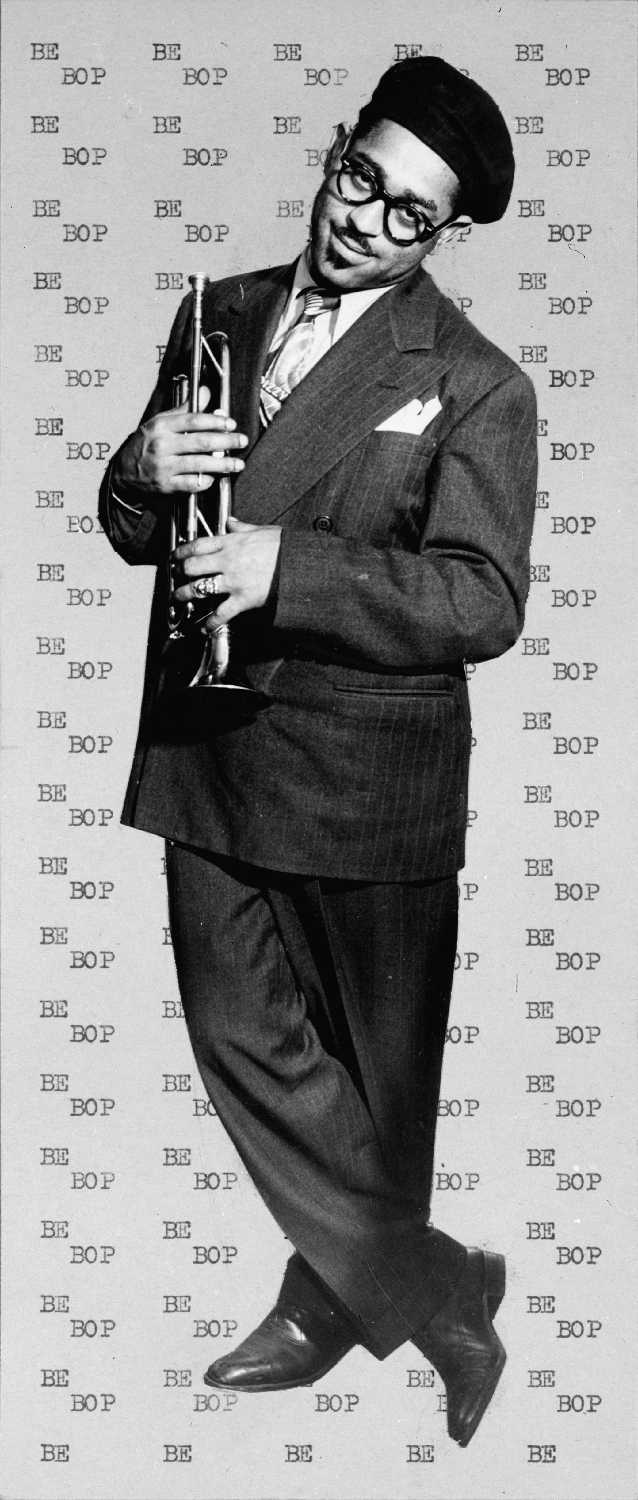 Caption from Down Beat ("Well, be-bop!," v. 14, no. 11 (May 21, 1947), p. 15.): This study of Dizzy Gillespie is from the camera of staffer Bill Gottlieb, depicting the be-bopper's characteristic hat, spectacles, horn, goatee and slouch. Black and white negative at 3 1/4 x 4 1/4 inches.